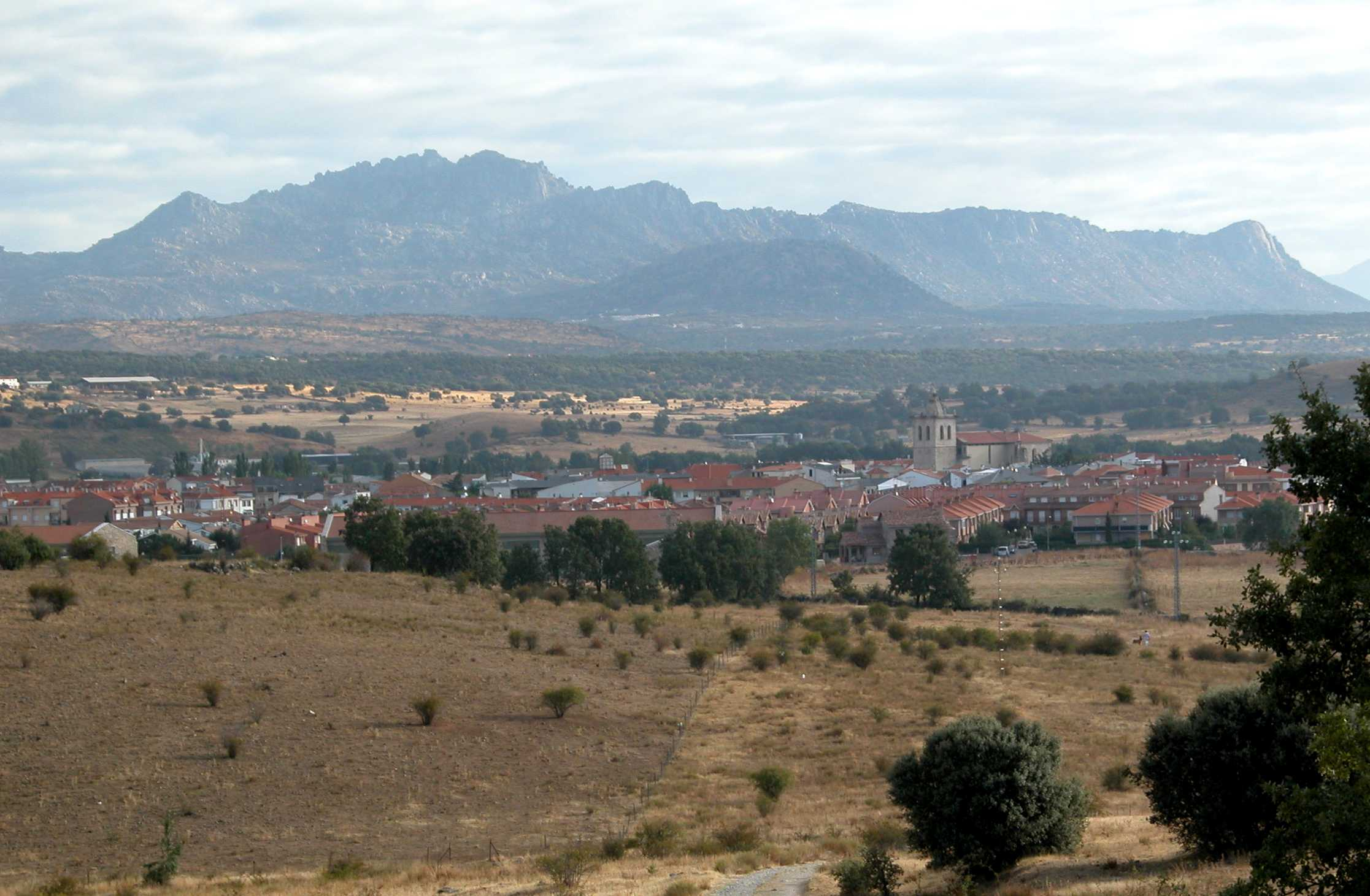 Guadalix de la Sierra. Madrid. Spain. General view with the Cabrera's Sierra as a background.